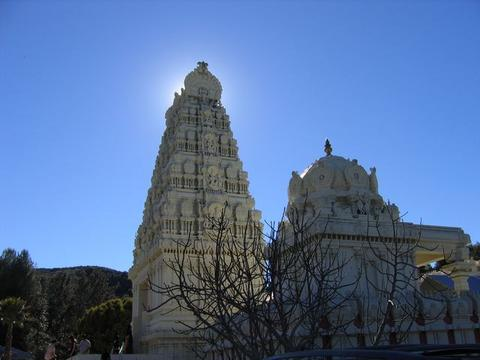 The Hindu Temple at Malibu, California.